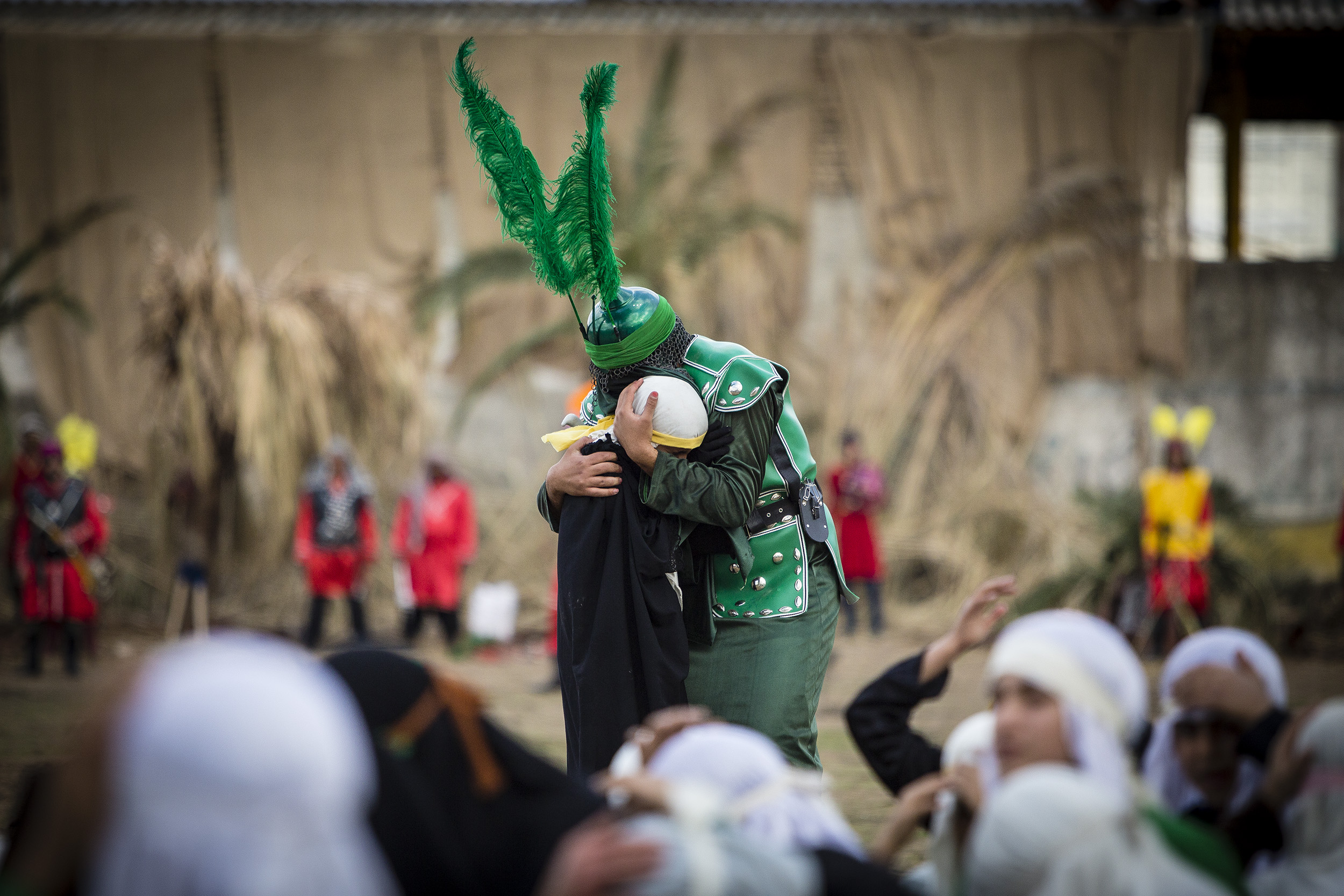 Mourning of Muharram is held in majority of cities and villages in Iran by Shia Muslims annually. Although all sort of ceremonies are performed for Imam Hossein and his followers martyrdom remembrance, they have different styles and rules referring to various cultures.